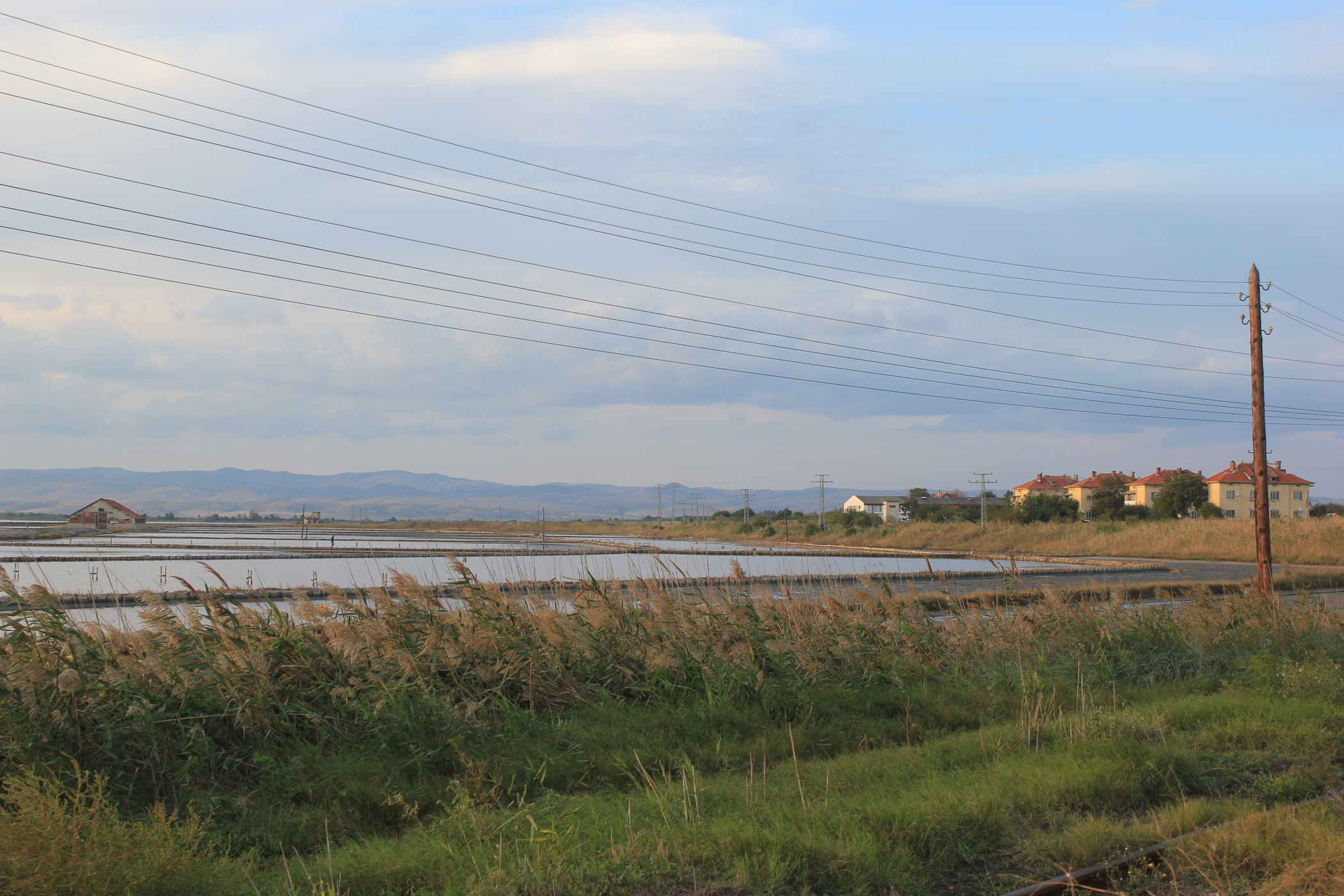 Saltworks north of Burgas, Bulgaria.